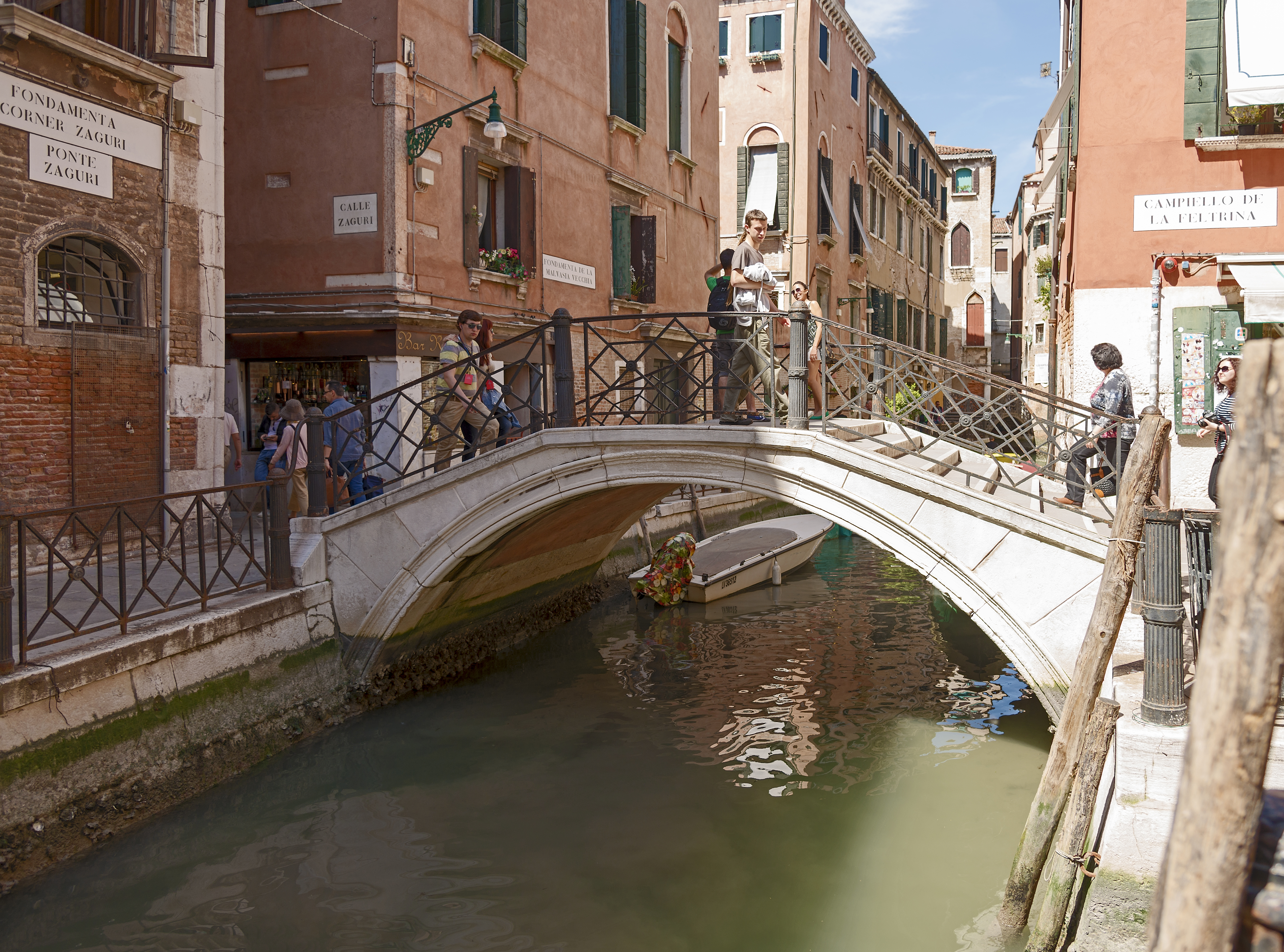 Ponte Zaguri, in Venice, on rio di San Maurizio.